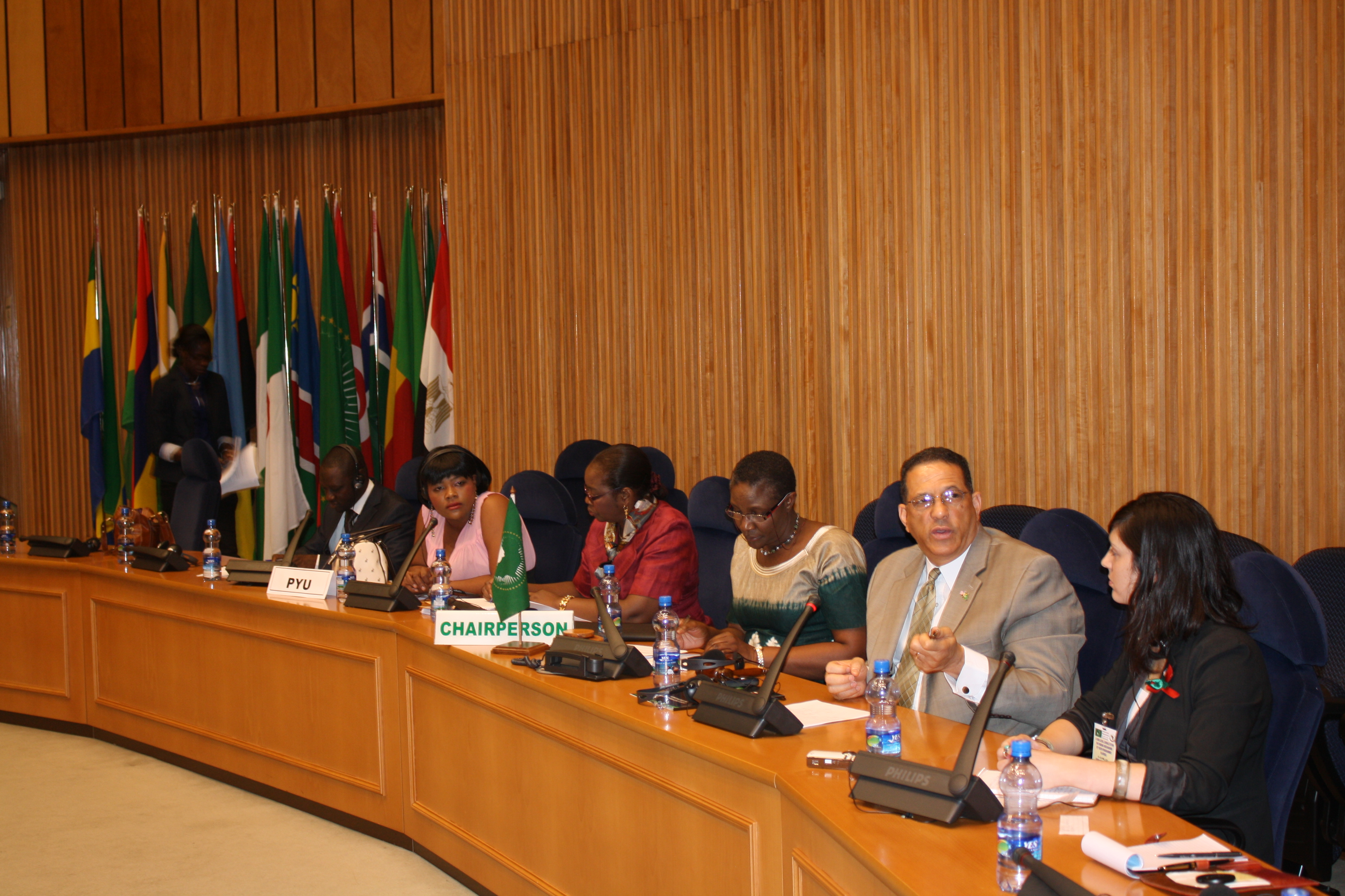 On April 6, 2011, U.S. Ambassador to the African Union, Michael Battle, delivered remarks and answered questions during a session entitled, “Friends of Africa” at the 2011 Pre-Summit African Youth Forum at AU headquarters in Addis Ababa from April 1-9. Delegates to the Youth Forum welcomed Ambassador Battle’s engagement and participated actively in the session, sharing their insights and perspectives on youth interaction with partners, including the U.S. Photo Credit: USAU